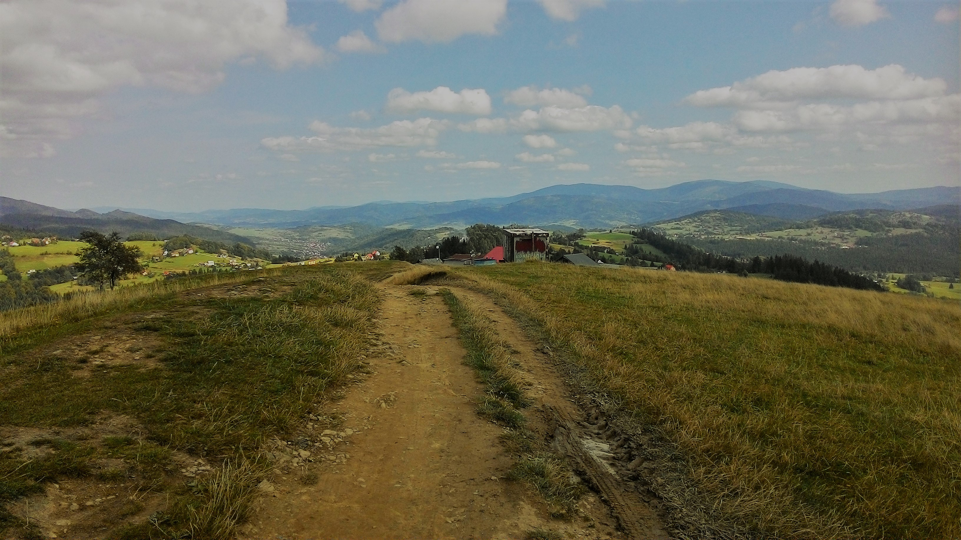 On the Ochodzita Mount in Koniaków, Poland.